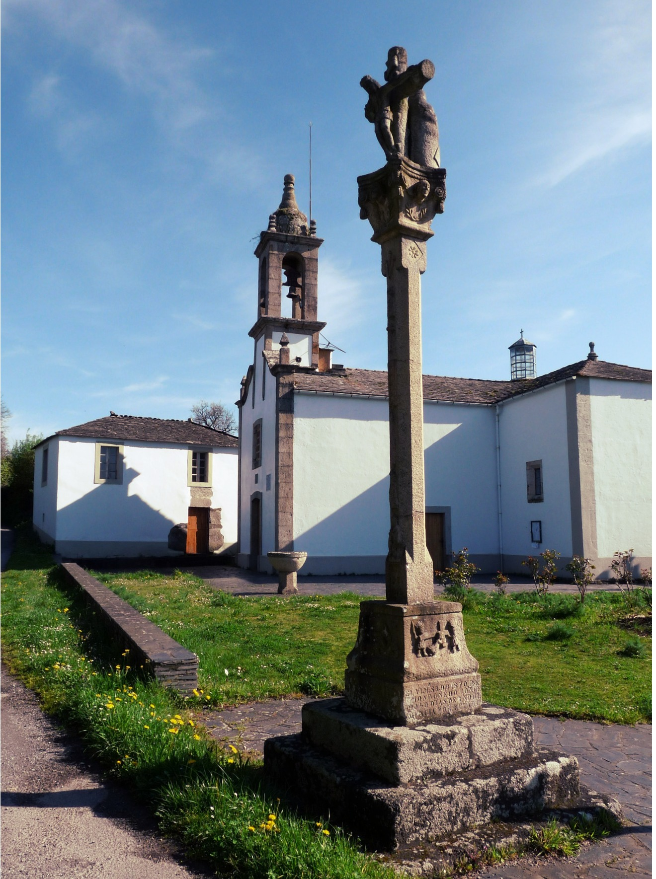 Stone cross and church of Santa María de Trobo, Begonte, Galicia, Spain.